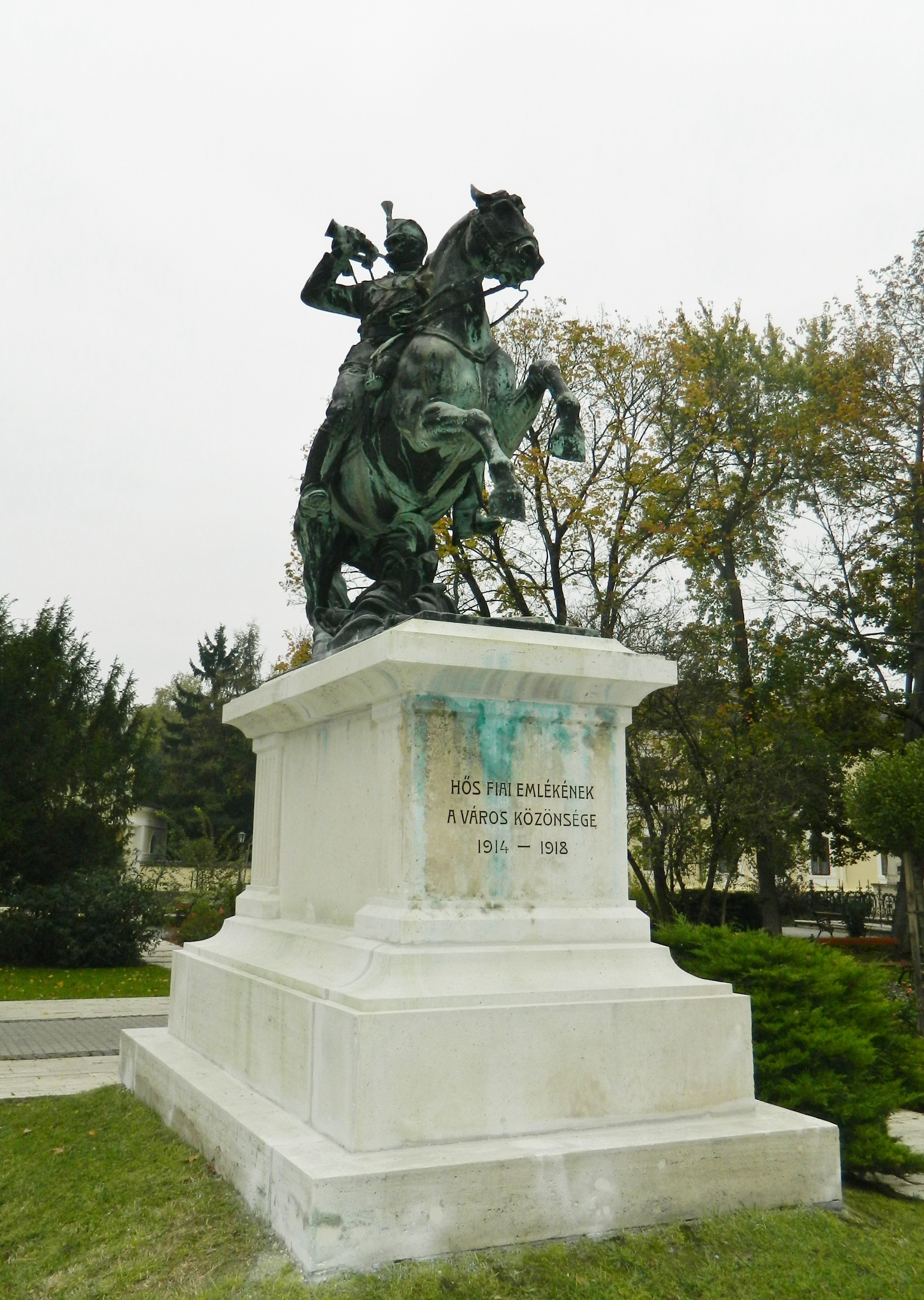 sculpture of Jasz cavalryman. Viktor Vass 1926, Jászberény.